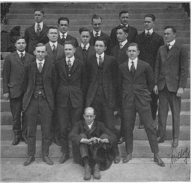 Baseball player "Doc" Prothro, Junior Dental class from the University of Tennessee. Shown in 1917. Doc Prothro is not identified in the photo, however.